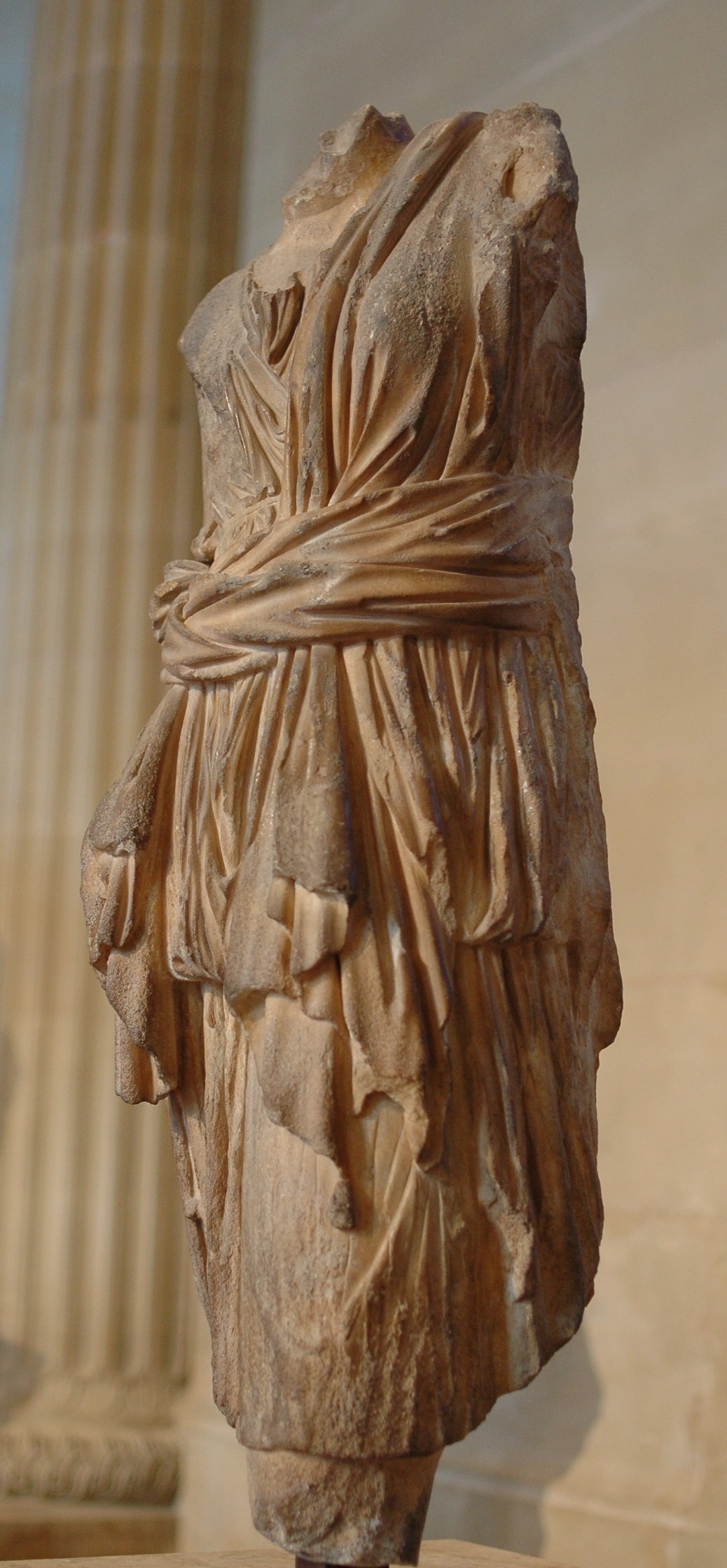 Statue of Artemis of the Seville-Palatine type. Roman artwork, 1st–2nd centuries CE, copy of the neo-manierist style of the late 5th century BC, Pentelic marble. Artemis is identified by her clothes: himation (coat) thrown over the left shoulder and girded around the waist, chiton (tunic) rolled up for running.